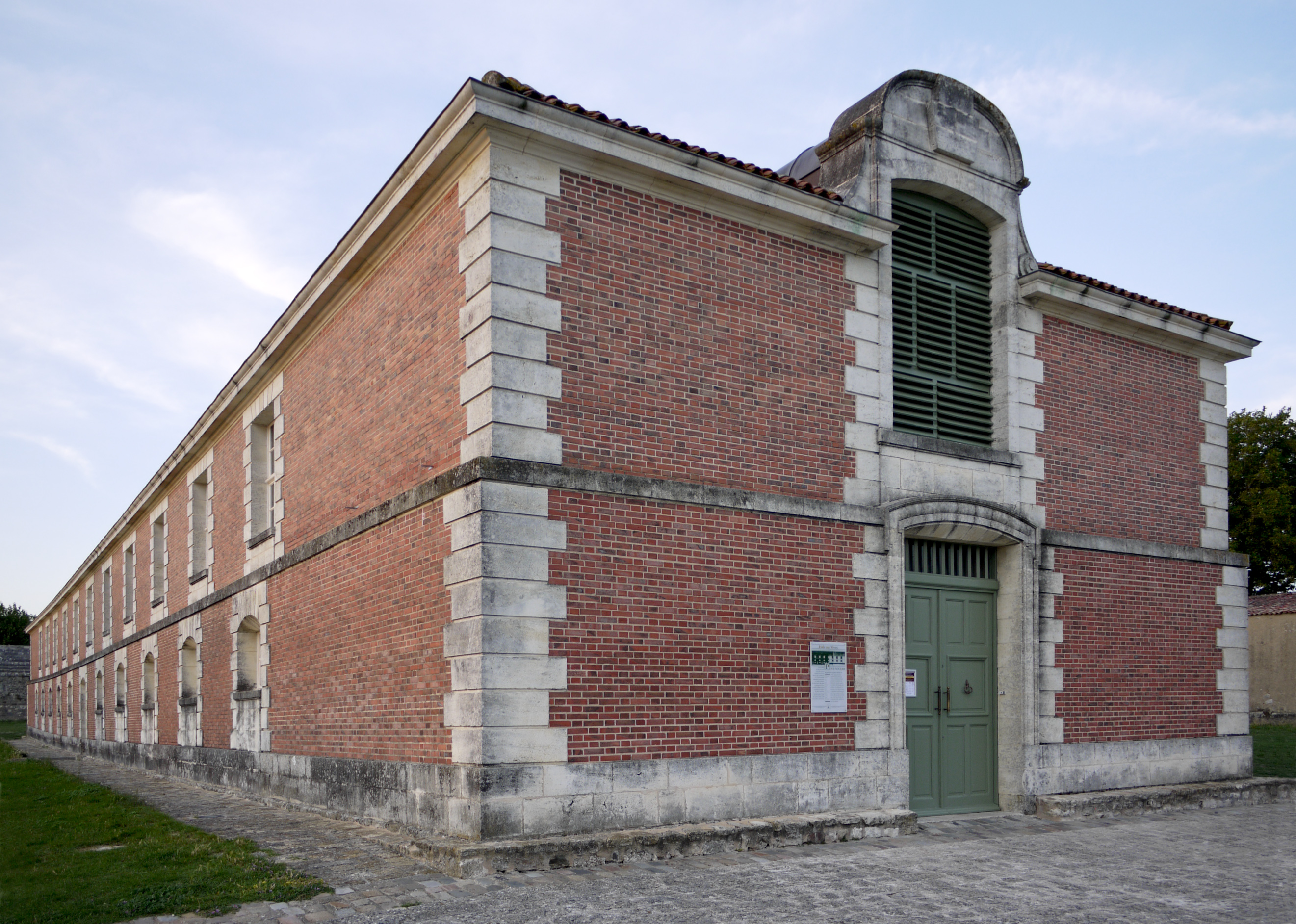 Brouage, food stores. France.